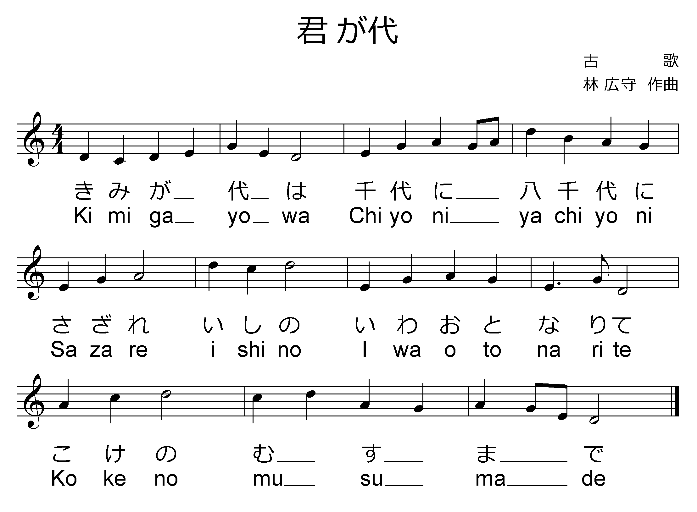 The score of Kimigayo